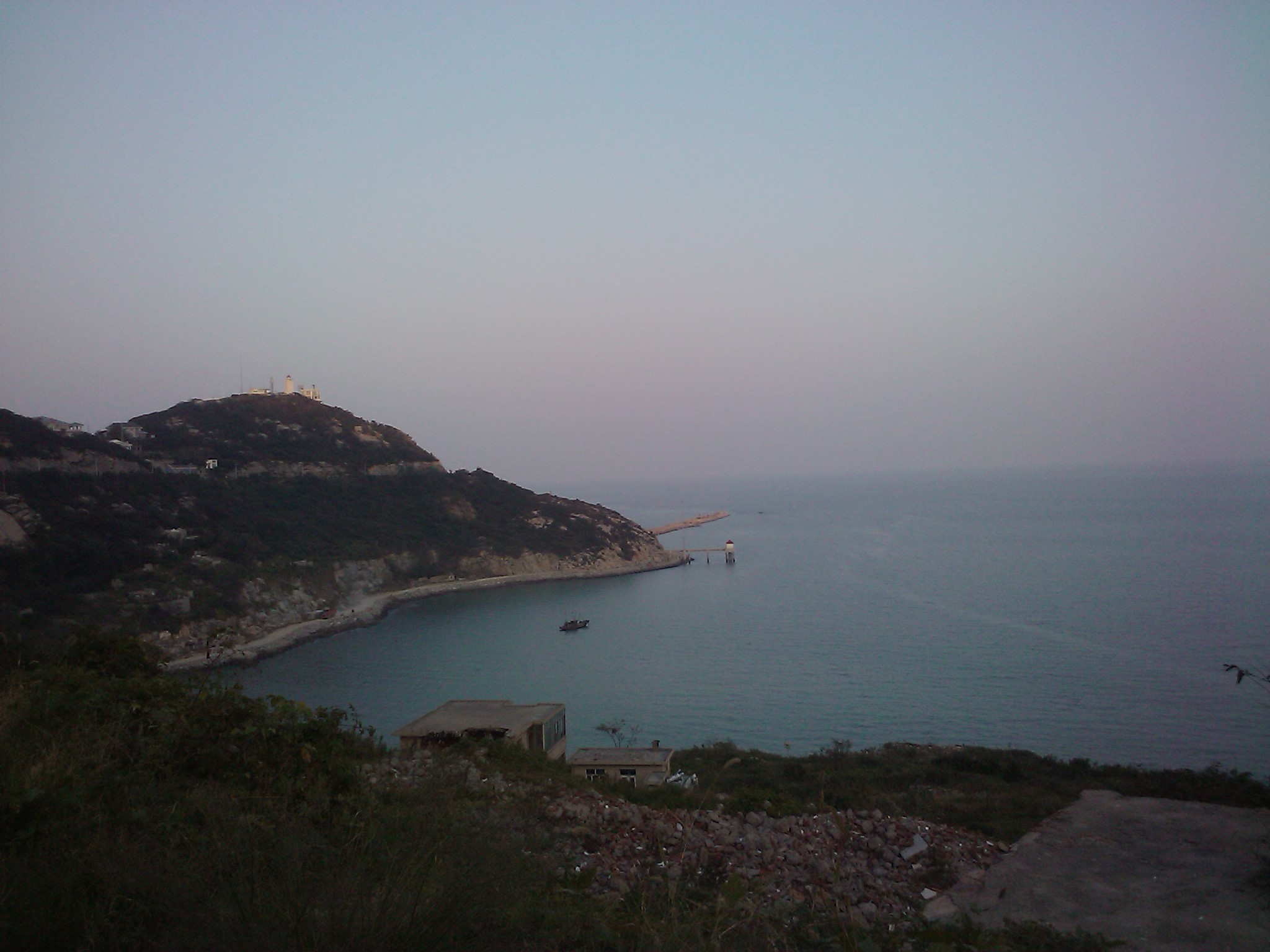 taken on the hill at Lian Island